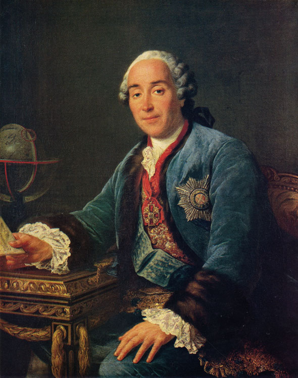 Dmitry Mikhaylovich Golitsyn (1721–1793), Russian diplomat and connoisseur of art